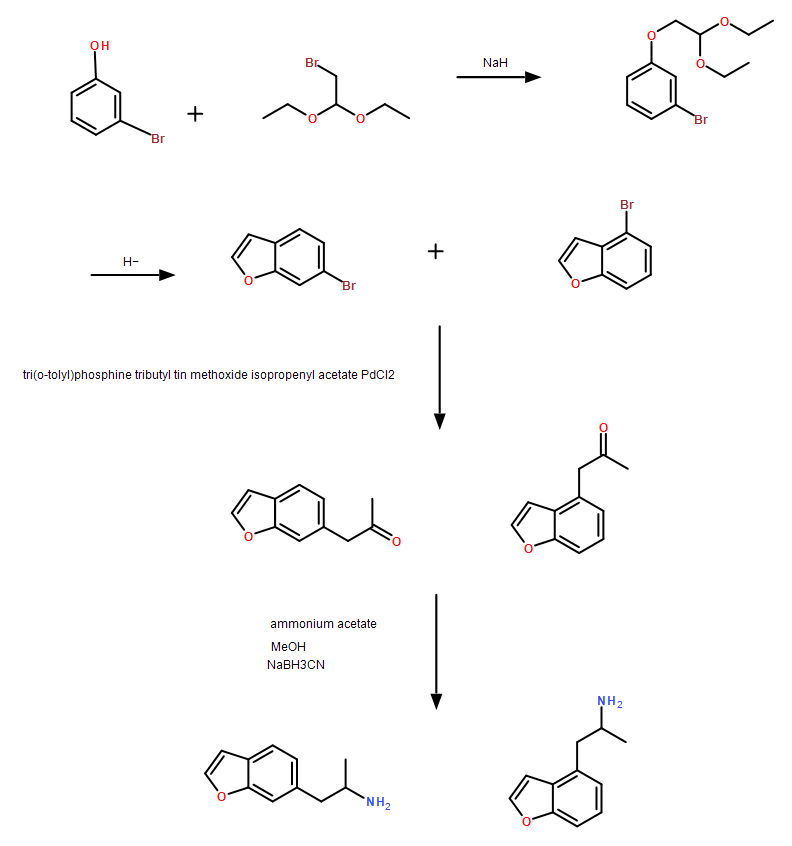 Synthesis drawn out on JSDraw 4 with reference to below article.